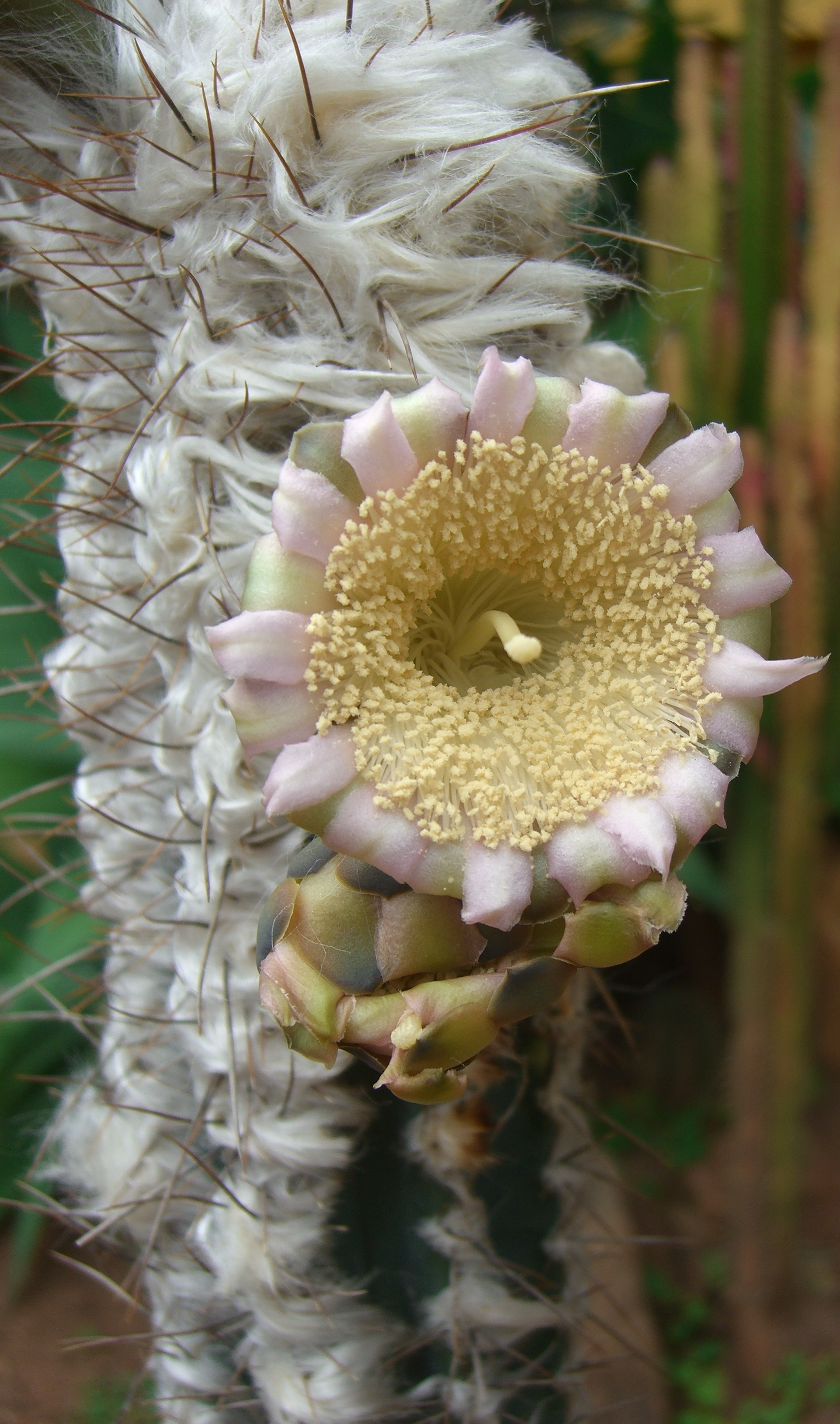 Please report references to .